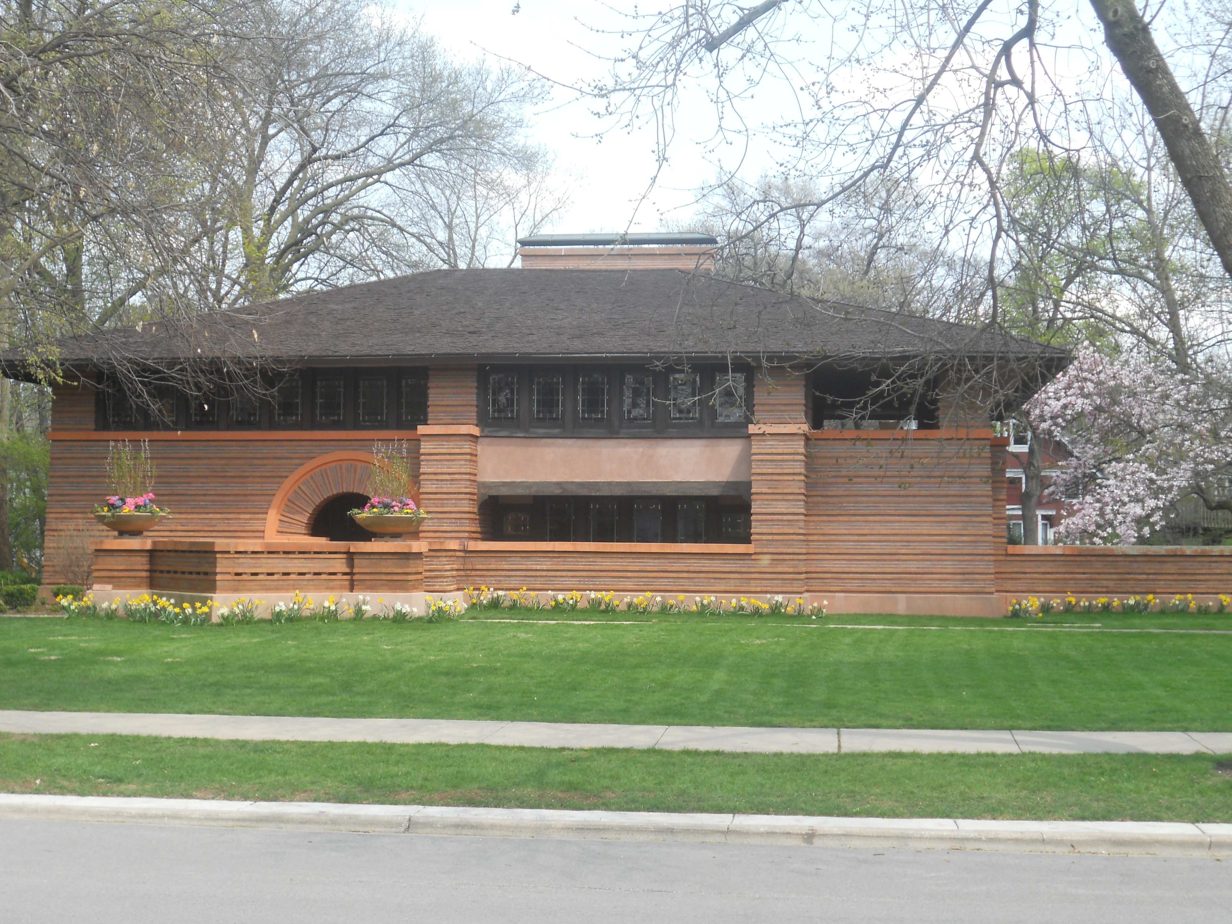 Frank Lloyd Wright's Arthur Heurtley House (1902), Oak Park, IL